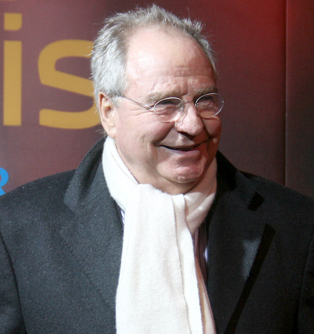 Friedrich von Thun, Bavarian Film Awards 2012 at the Prinzregententheater in Munich.